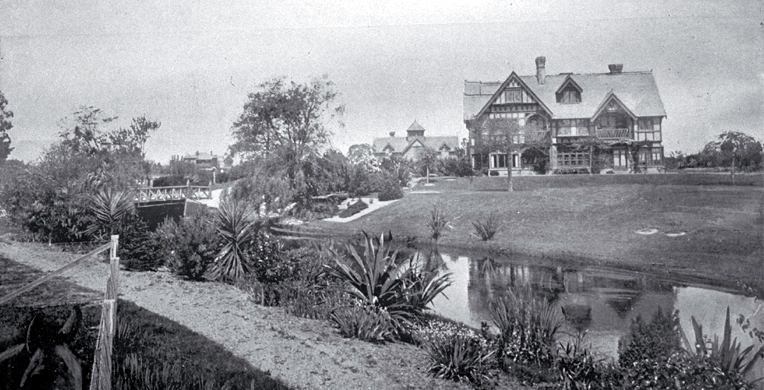 Daresbury Rookery, 67 Fendalton Road, Christchurch [ca. 1902] This photograph shows Daresbury, a 50-room house on 25 acres, designed by S. Hurst Seager and built between 1897 and 1901 for George Humphreys (1848 or 9-1934), co-founder of the wine and spirits merchants Fletcher Humphries. Until 1945 the property was called Daresbury Rookery because of a colony of rooks that made its home in about 100 bluegums planted on the property in 1862 by Jane Deans. A snowstorm in 1945 damaged the trees and the rooks left.